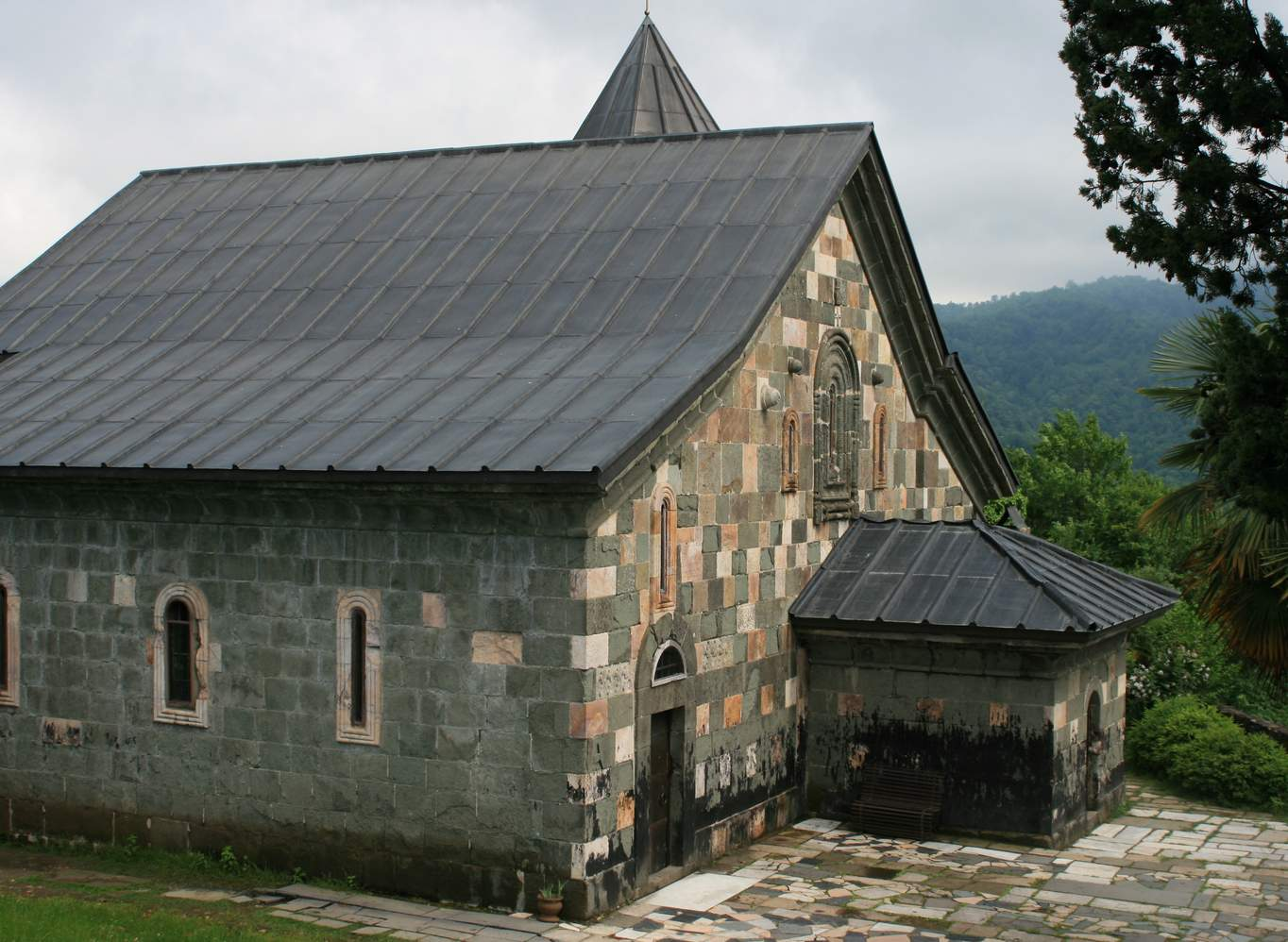 Shemokmedi monastery, Guria, Georgia